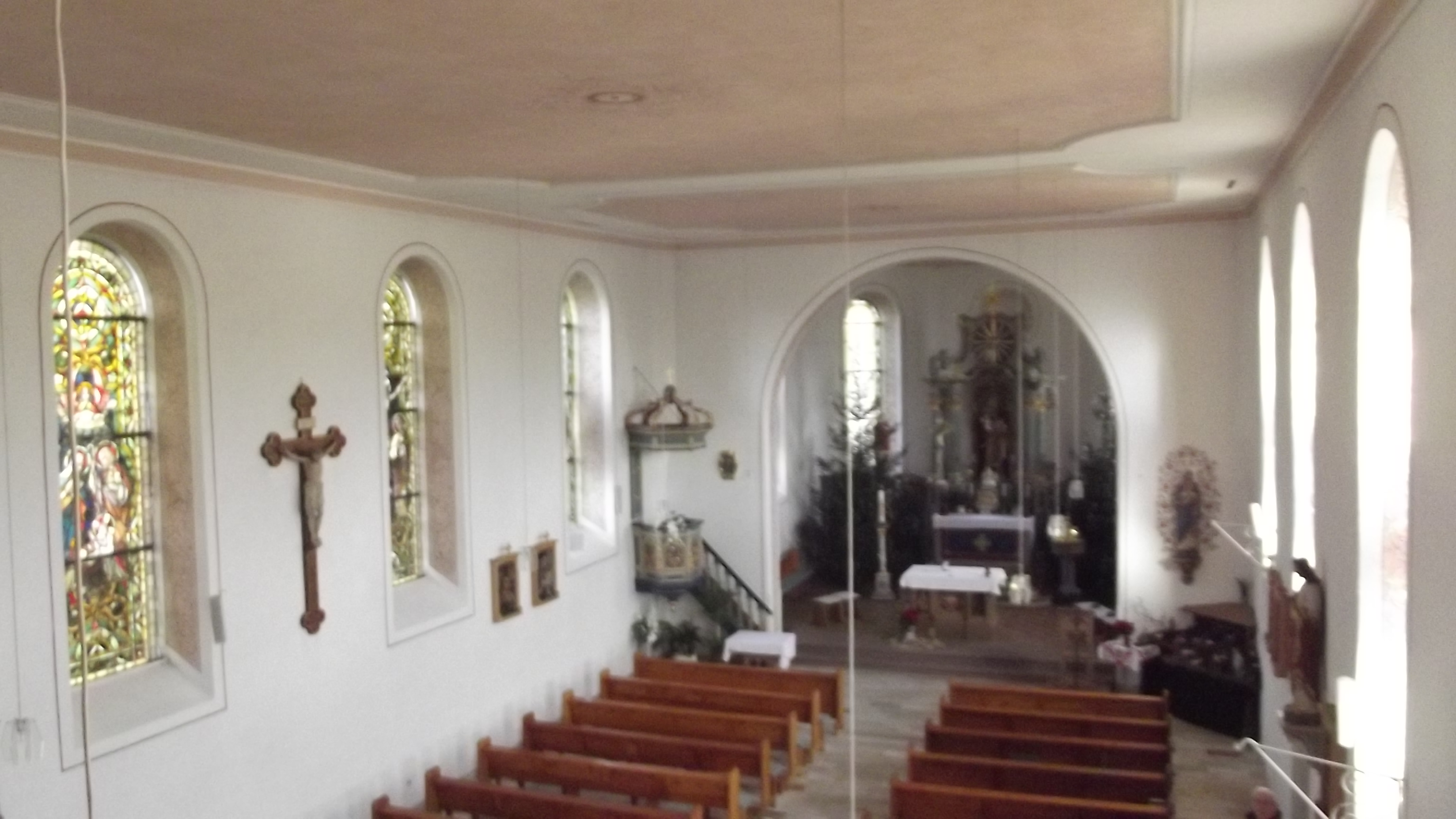 Interior of the roman catholic church in Otzenhausen, Saarland